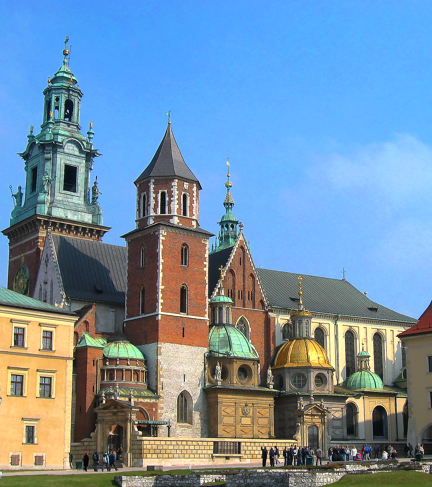 Wawel cathedral